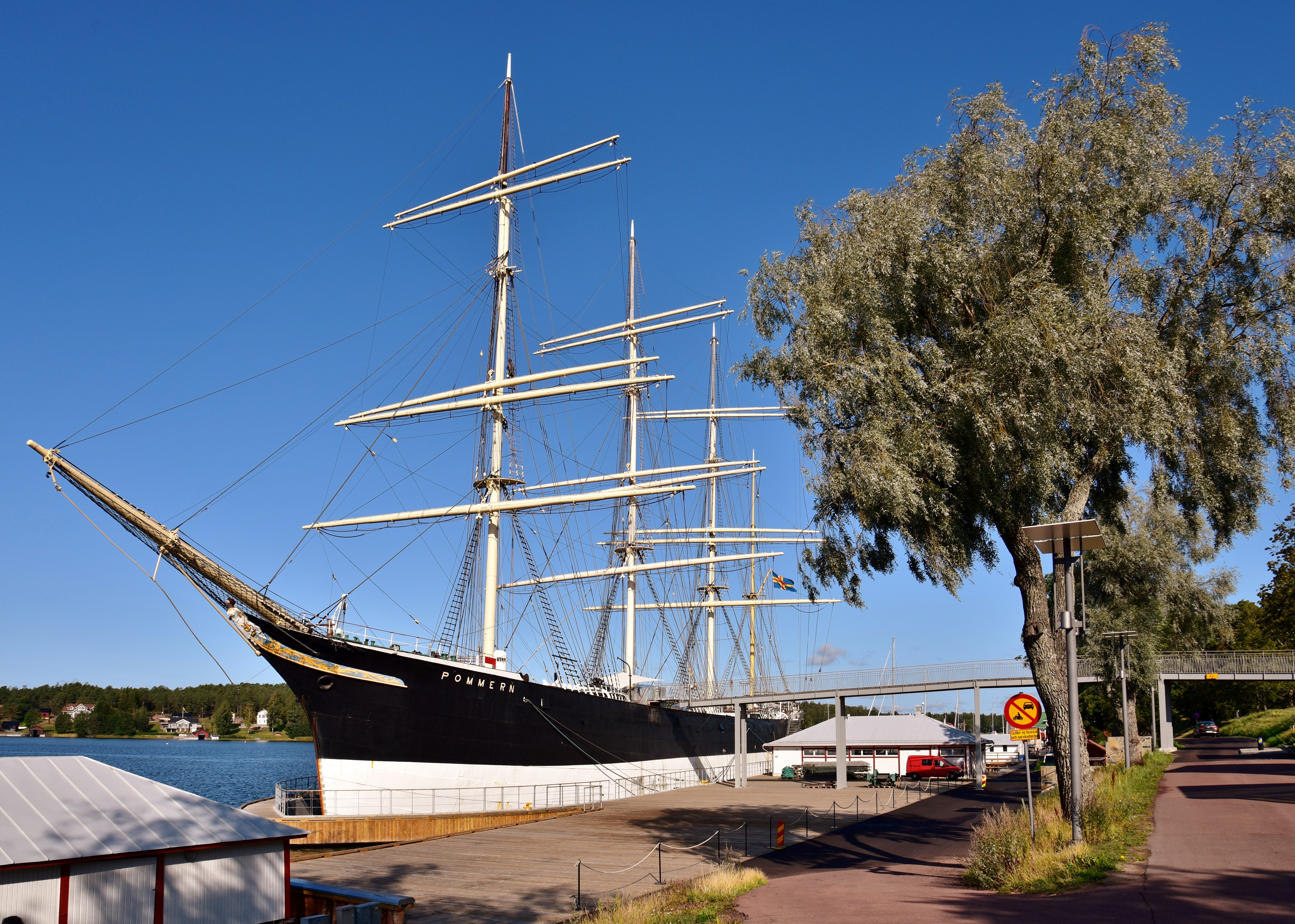 The preserved sailing ship Pommern, on display at the Åland Maritime Museum in Mariehamn, Åland Islands, Finland